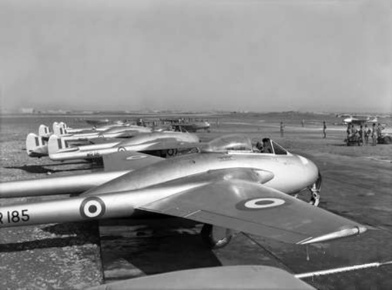 A formation of 78 Fighter Wing RAAF De Havilland Vampire jet aircraft gets ready to taxi out to the takeoff point for the Battle of Britain fly past over Malta. The Wing was stationed in Malta for garrison duty.